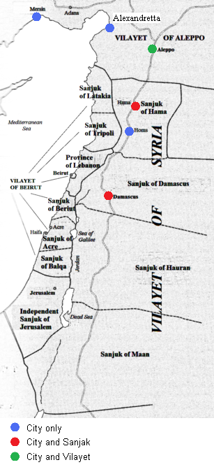 Map of places called "districts" in the letter from McMahon to Hussein dated 24 October 1915.